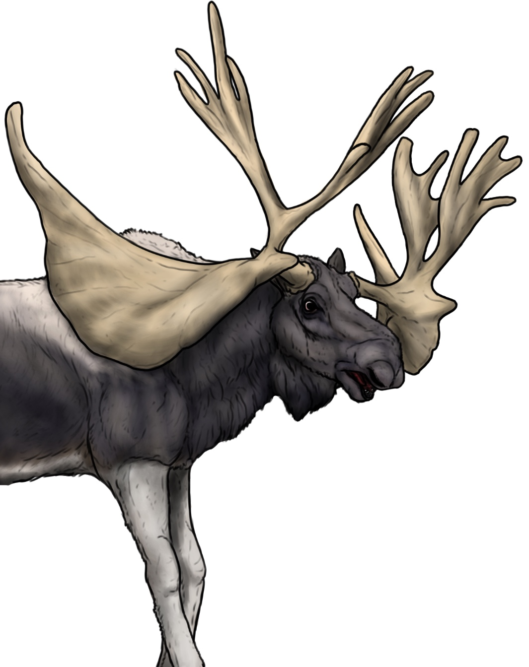 The Stag moose (Cervalces scotti)